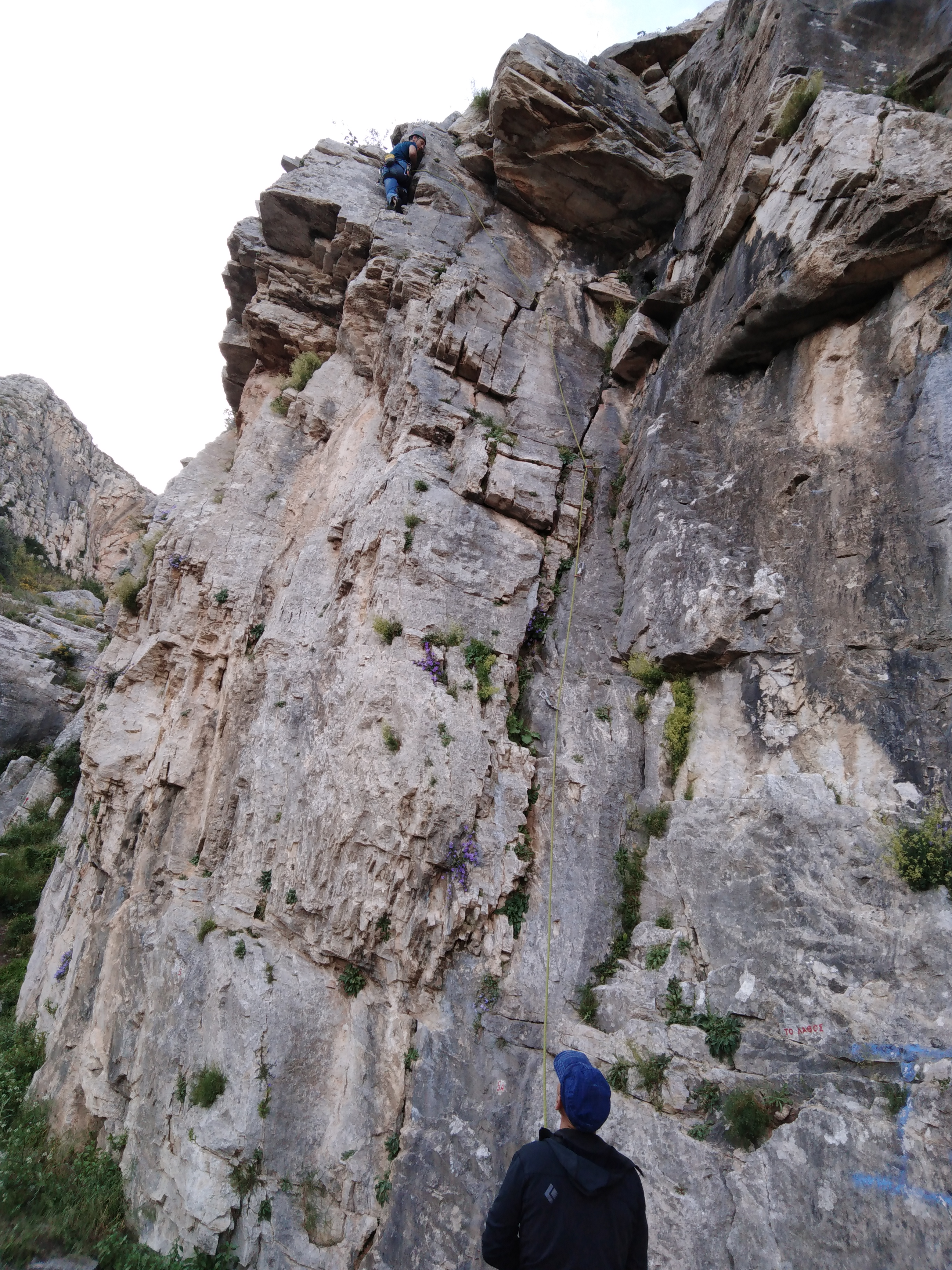 Greece Hymettus, rock climbing in the insured field of EOS Ilioupolis 2019